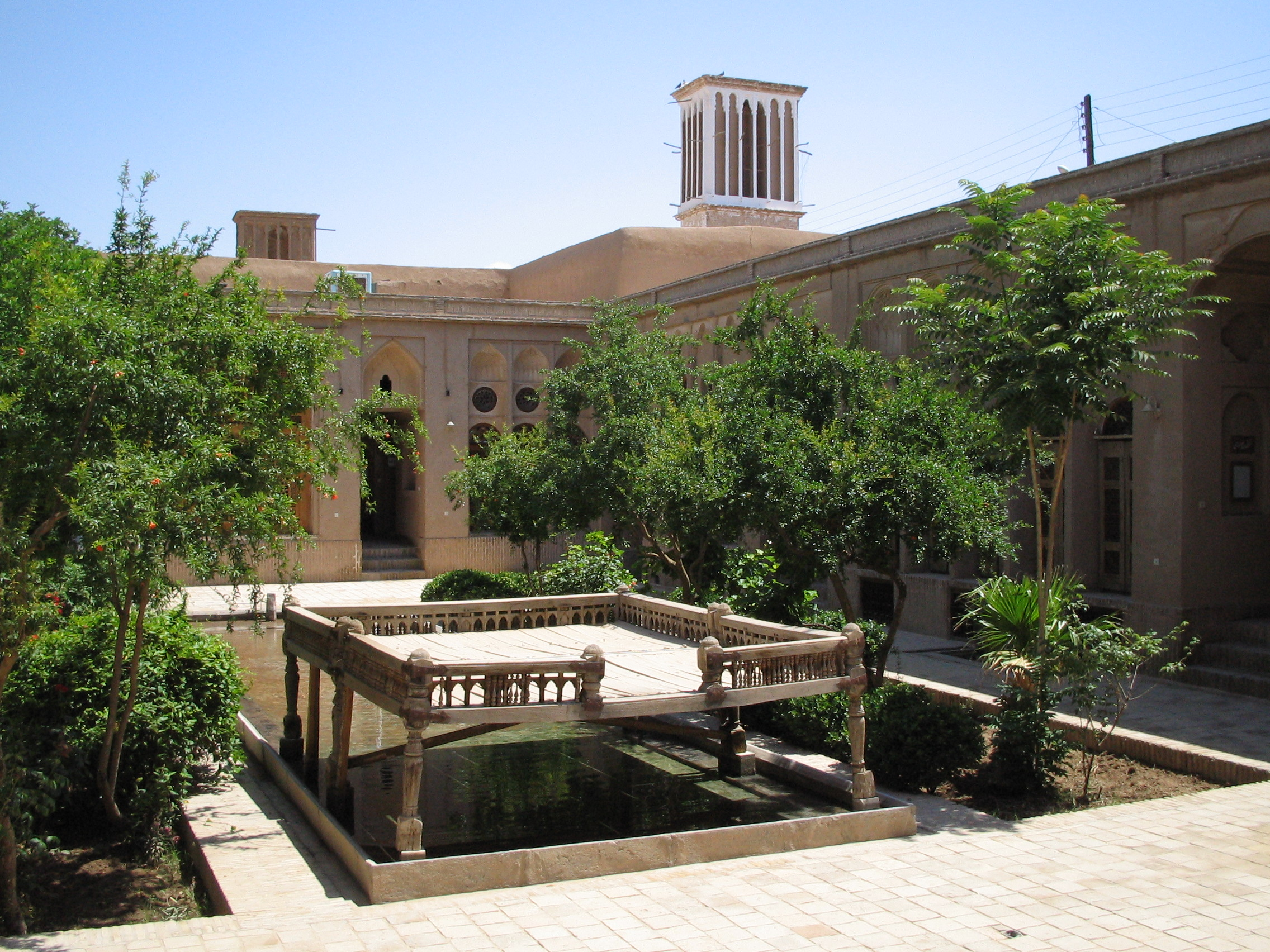 Yard with pool in Khaneh Lari, Yazd, Iran.